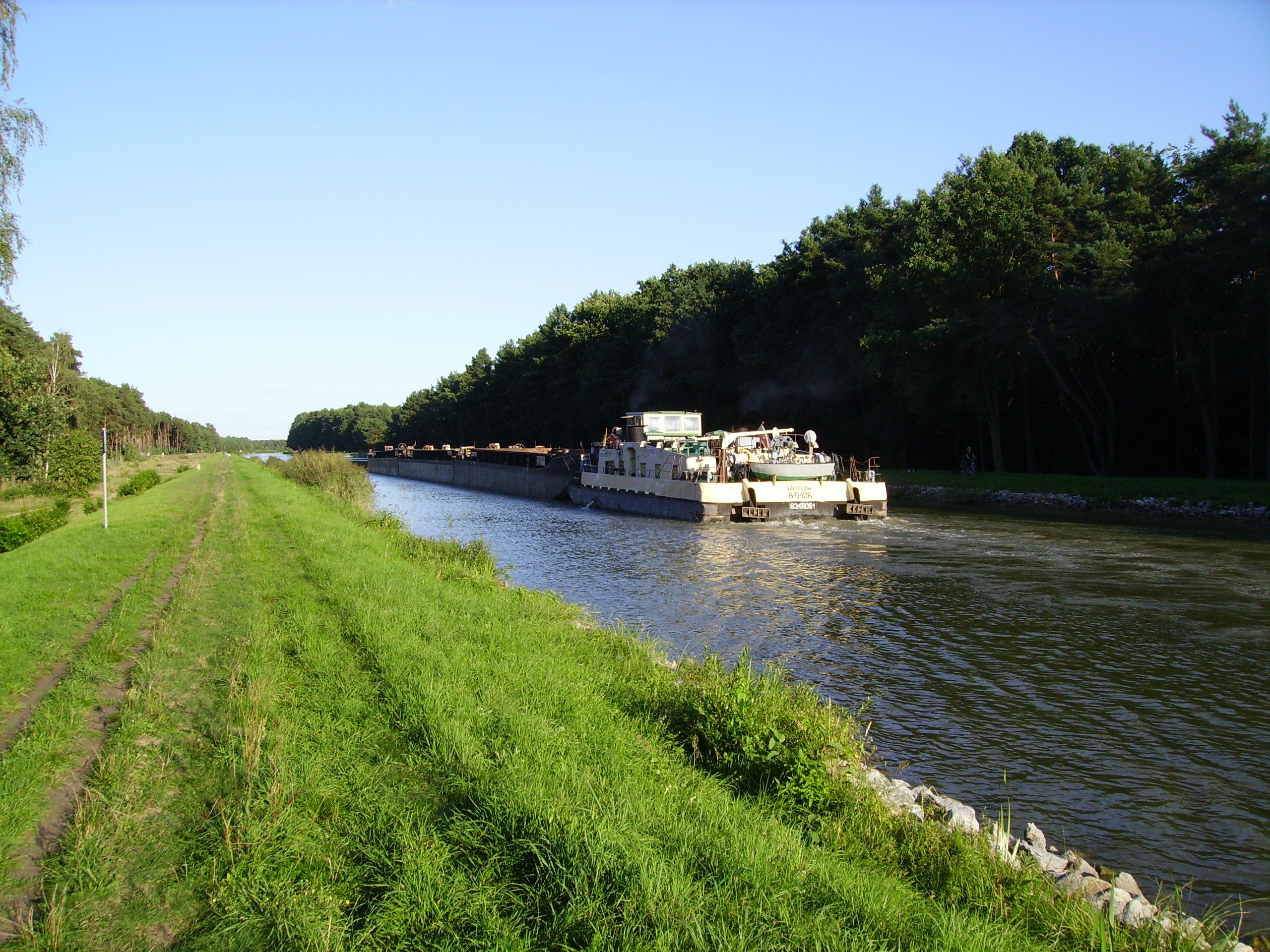 Oder-Havel-Chanel